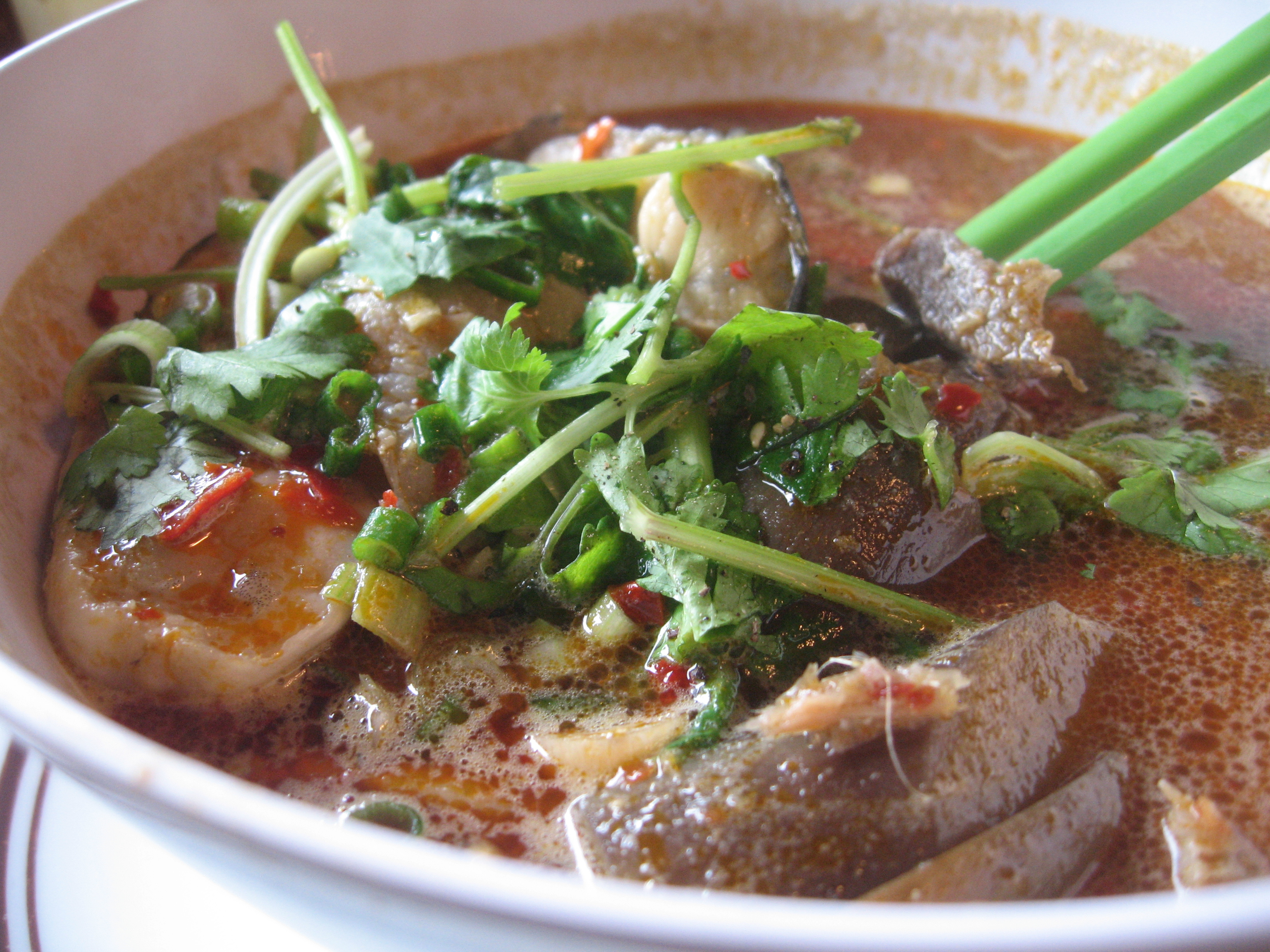 Bún mắm is a vermicelli noodle soup with a heavy shrimp paste broth. It's supposed to be pretty funky, as you would expect if you've ever used shrimp paste as an ingredient. Here, Yen Ha serves it fish steaks (small enough to be something like a trout) and eggplant as well as nice pieces of pork and and few shrimp. The noodles were served off to the side like how Thai places serve khanom jiin. @ Yen Ha